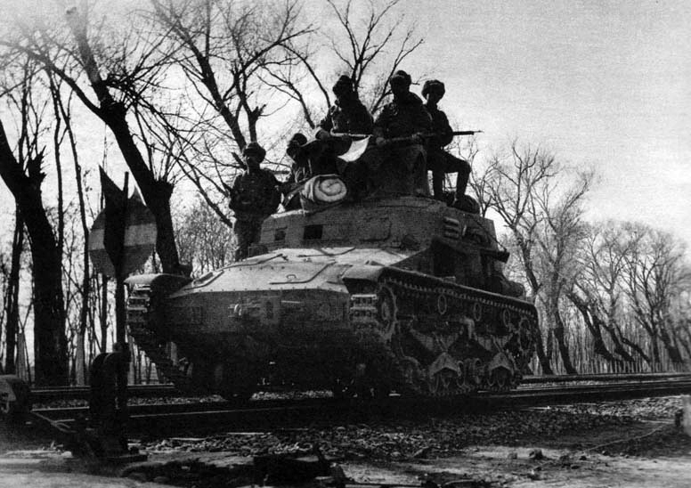 Type 95 Armoured Railroad Car So-Ki (九五式装甲軌道車) on tracks, with his crew of 6 sitting ouside the tankette.